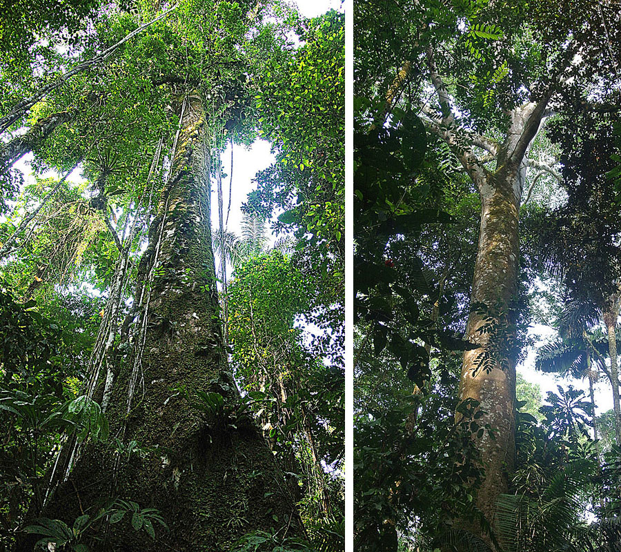 A large fig tree known as Chibencha in northwestern South America. Photo from eastern Ecuador. Named insipid for the bland taste of its figs.